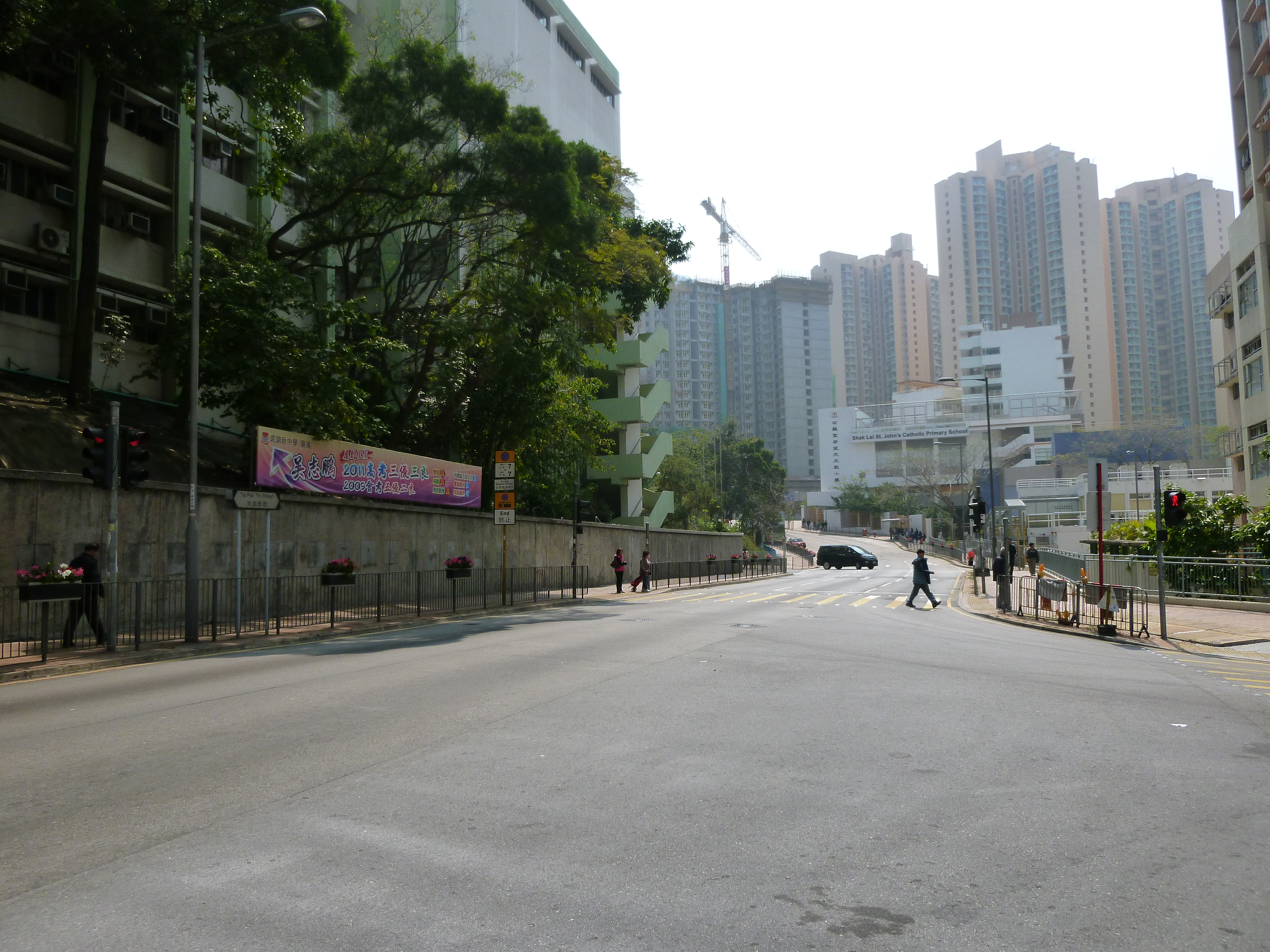 Tai Pak Tin Street (Kwai Tsing, New Territories, Hong Kong)